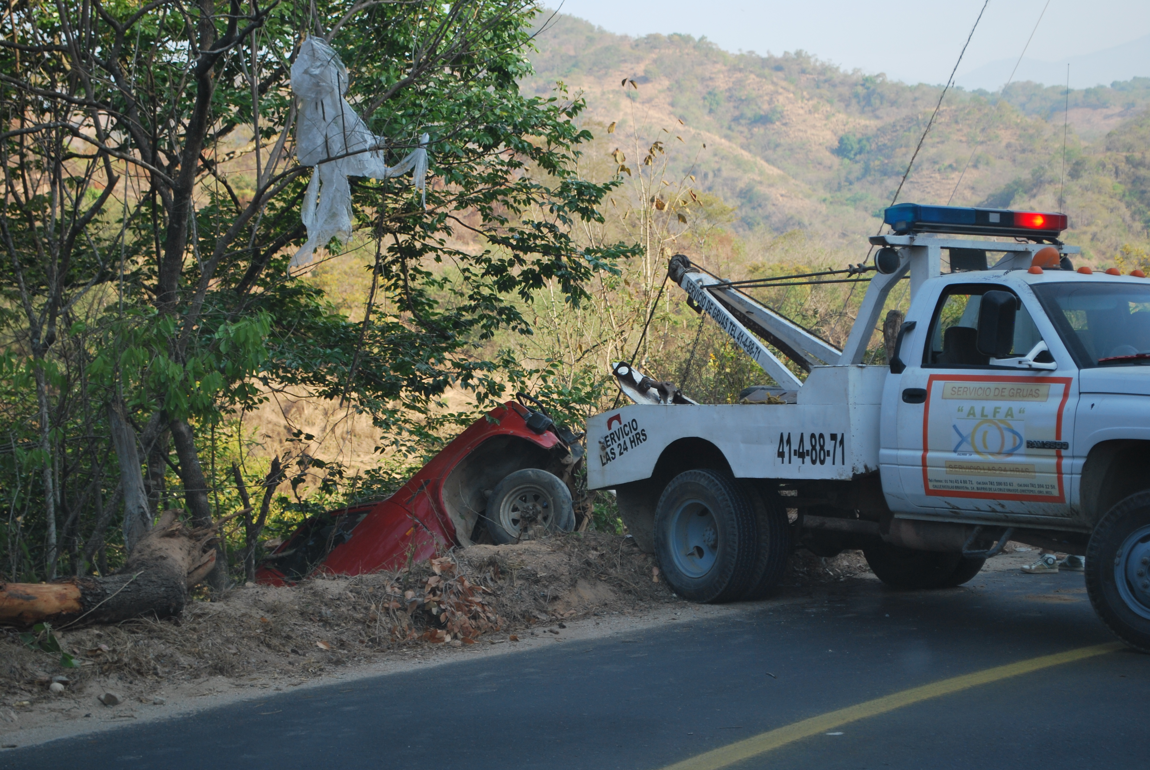 Pulling truck that ran off road in Xochistlahuaca, Guerrero